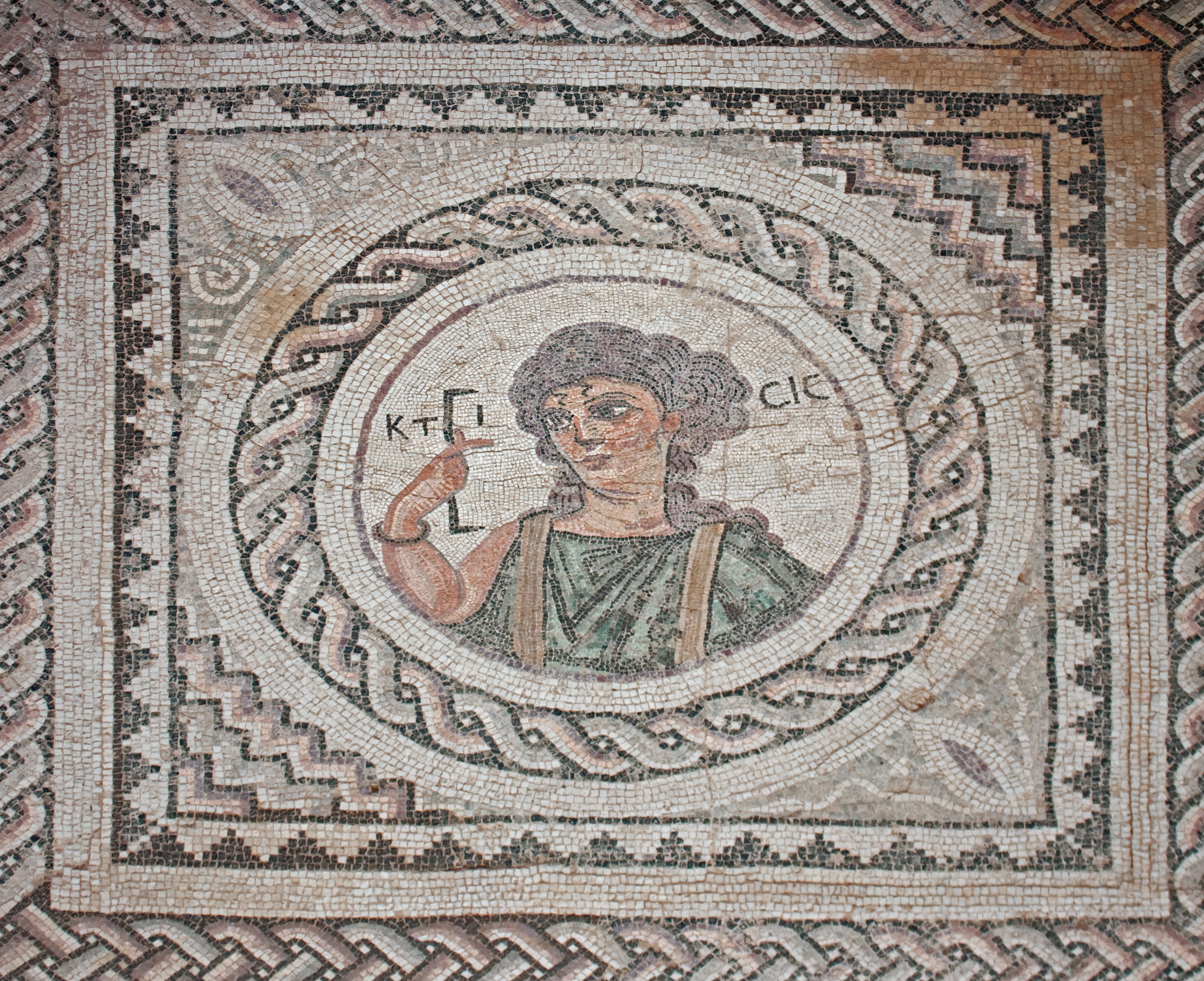 Mosaic in the House of Eustolios in Kourion, Cyprus. This is File:House of Eustolios mosaic closeup 2.jpg rotated and perspective changed.